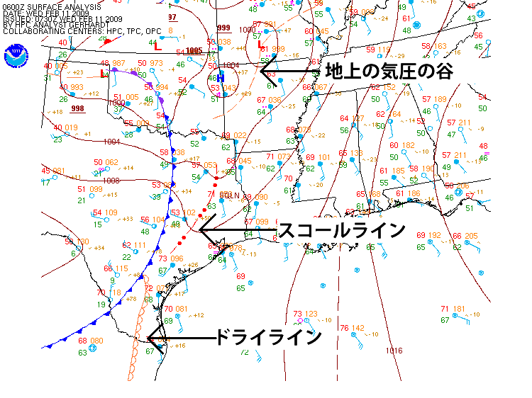 Surface Analysis of Central-South US by NOAA(, HPC, TPC and OPC).(07:30UTC, February 11, 2009)